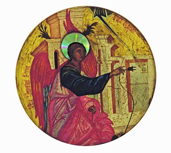 Artwork by Mall Nukke "Pühak esemega VI" / "Saint With an Object", oil, collage (2002)